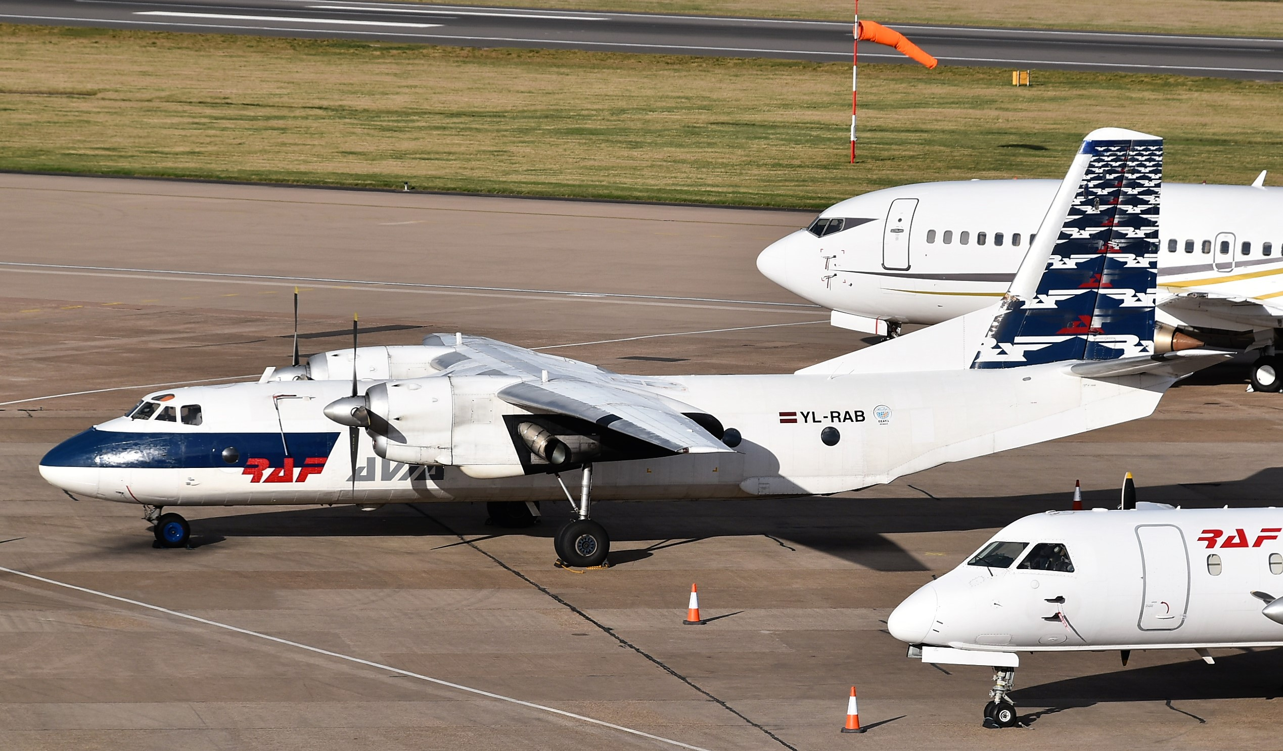 Antonov An.26B of RAF Avia at Birmingham-BHX,24/02/17.